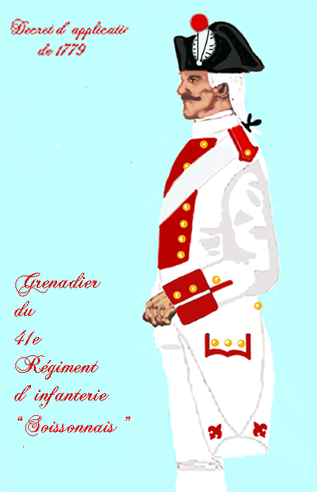 Uniform of a royal french infantry regiment from 1779 . Taken from: „LES UNIFORMES ET LES DRAPEAUX DE L'ARMÉE DU ROI“ Marseille 1899.